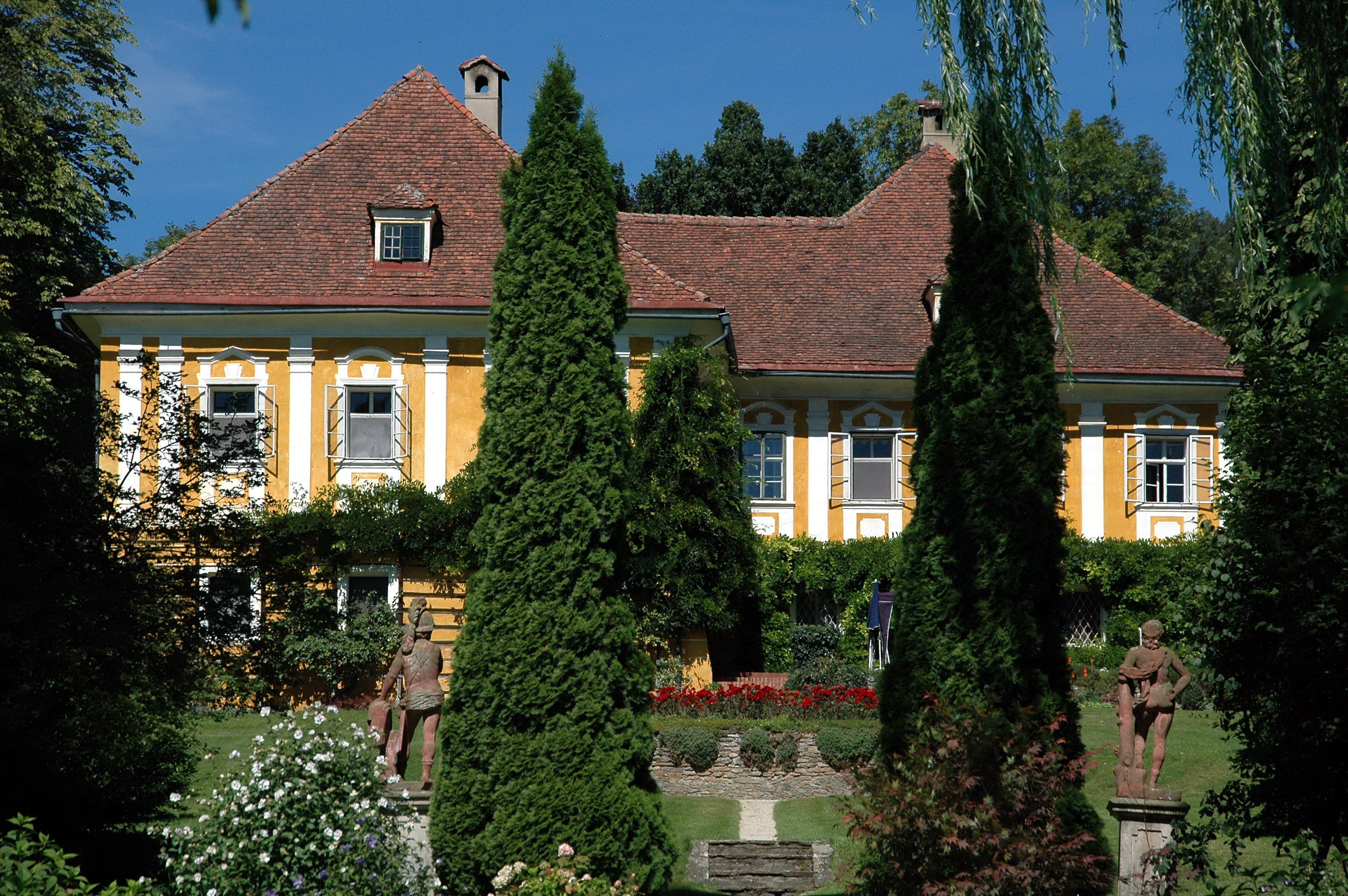 Castle Ottmanach, municipality Magdalensberg, district Klagenfurt Land, Carinthia / Austria / EU